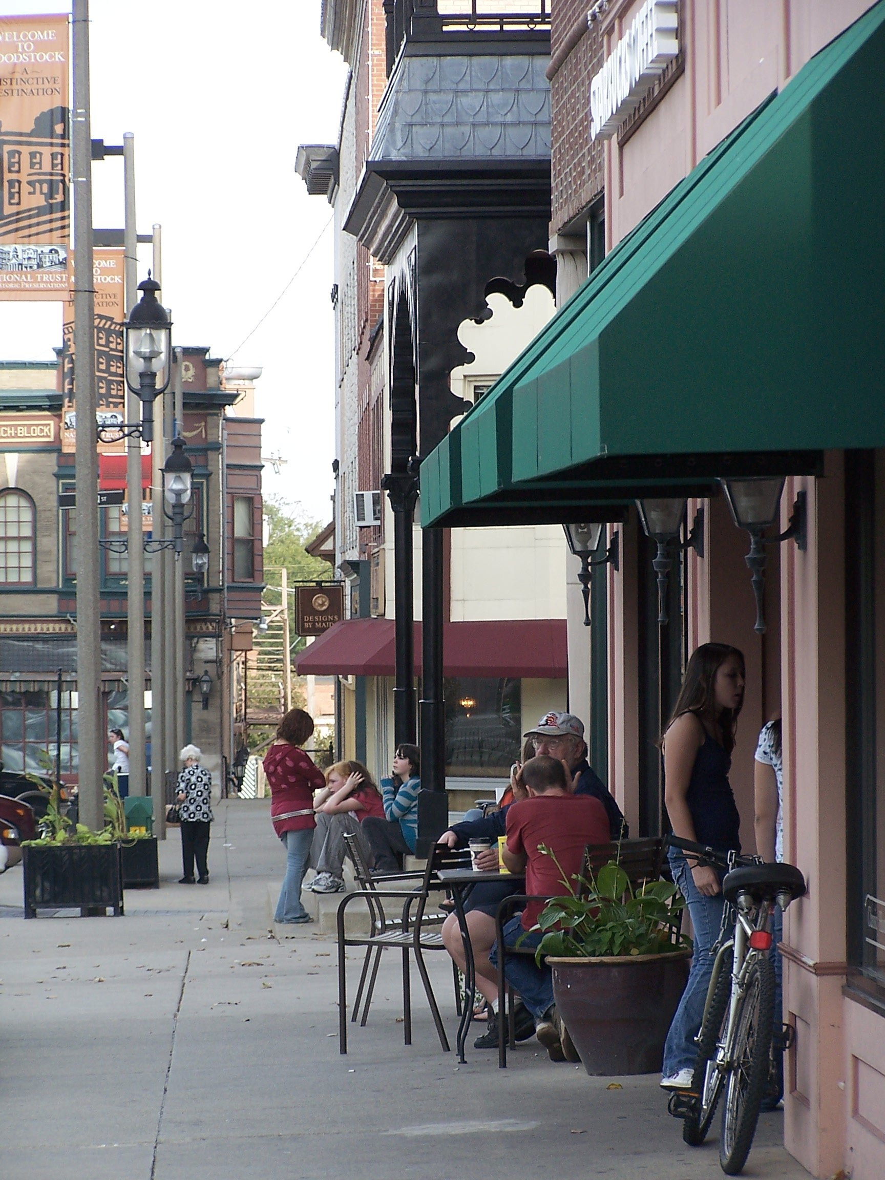 Woodstock Square, looking east from SW corner